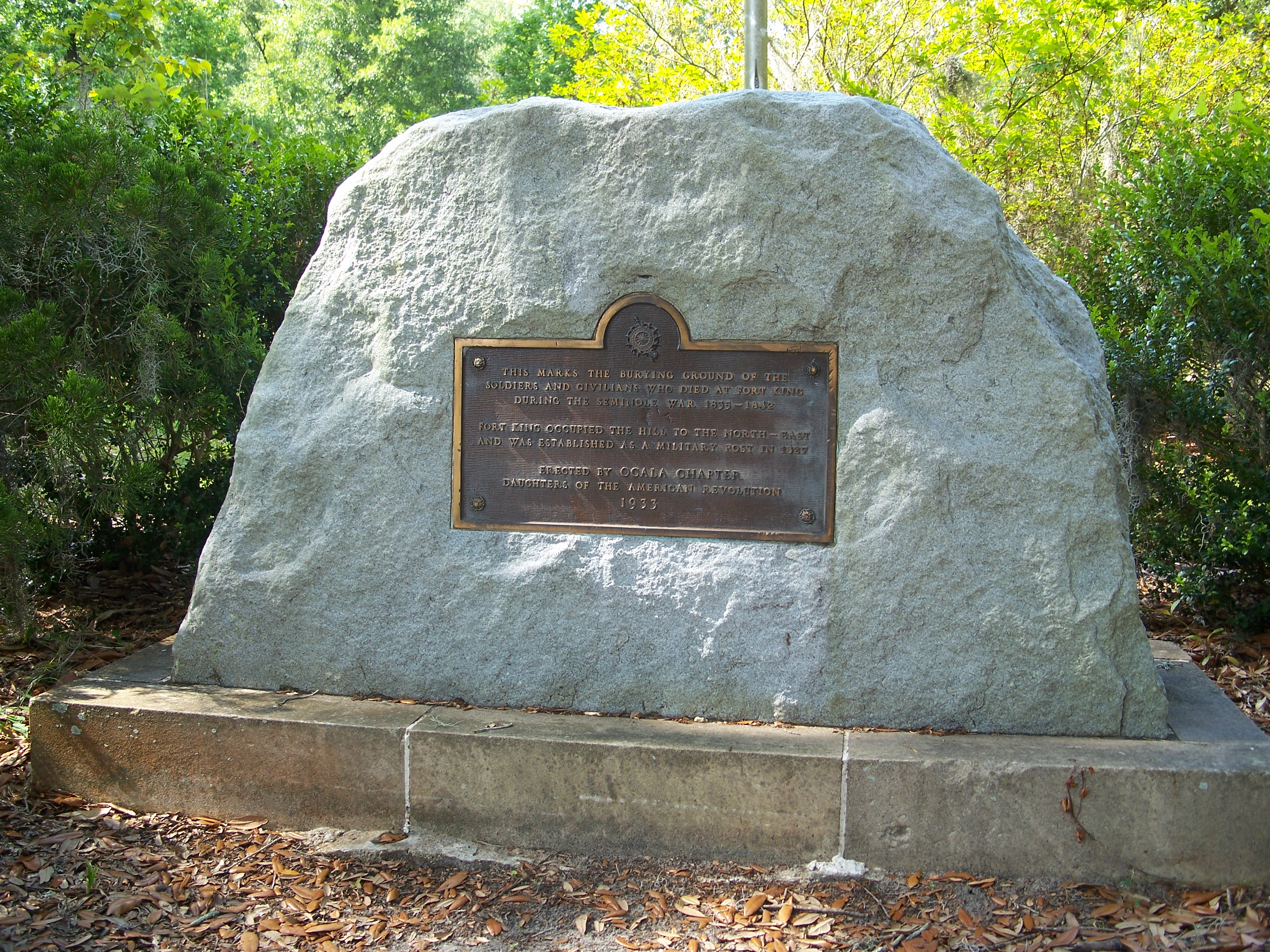 Historical marker at Fort King, a National Historic Landmark in Ocala, Florida